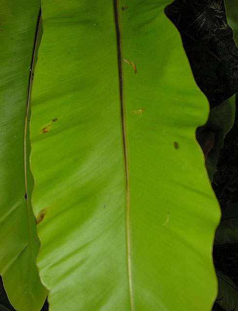 A Bird's Nest Fern. Here in northern Borneo it is known as Paku Sarang Burung, and a fluid is fluxed from the midrib to heal wounds. In context at